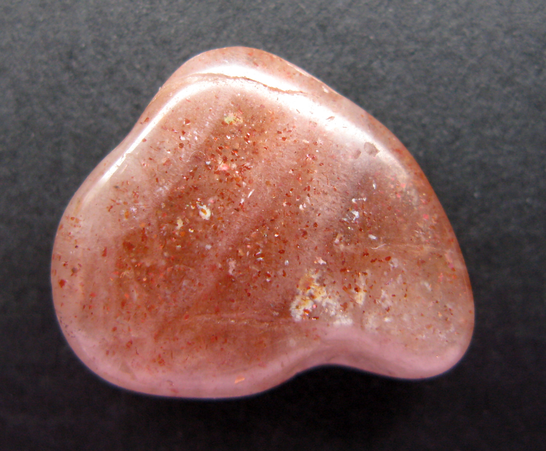 Sunstone, Variety of Oligoclase from India